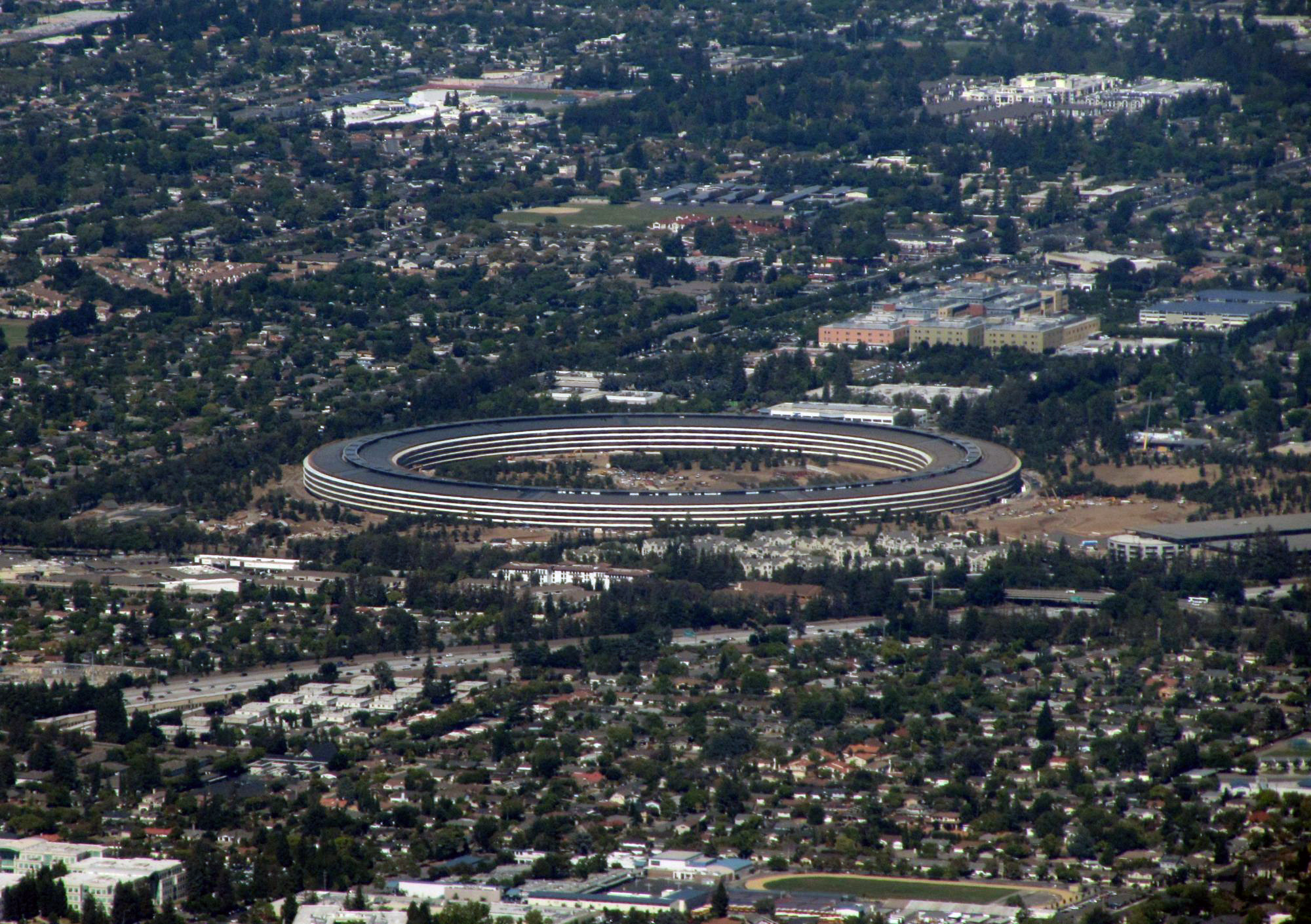 Apple Campus 2 aerial view toward northeast, 4pm PDT, July 20, 2017